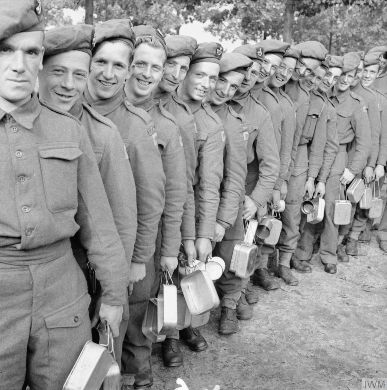 The British Army in North-west Europe 1944-45 Men of the King's Shropshire Light Infantry queue for their rations at a rest camp in Holland, 26 October 1944.